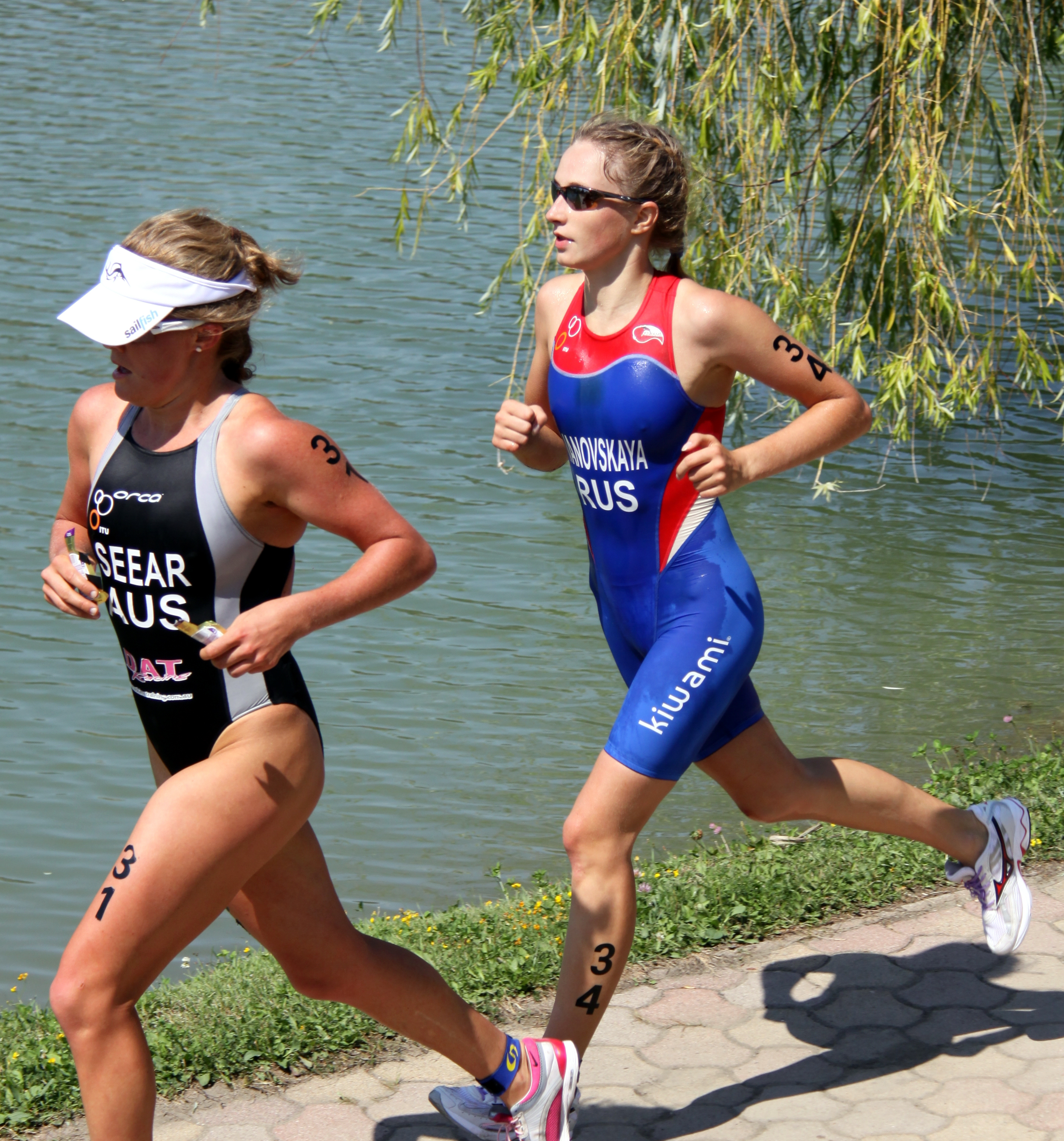 Lyubov (Liubov) Ivanovskaya (Любовь Андреевна Ивановская) Triathlon World Cup Tiszaujvaros 2009